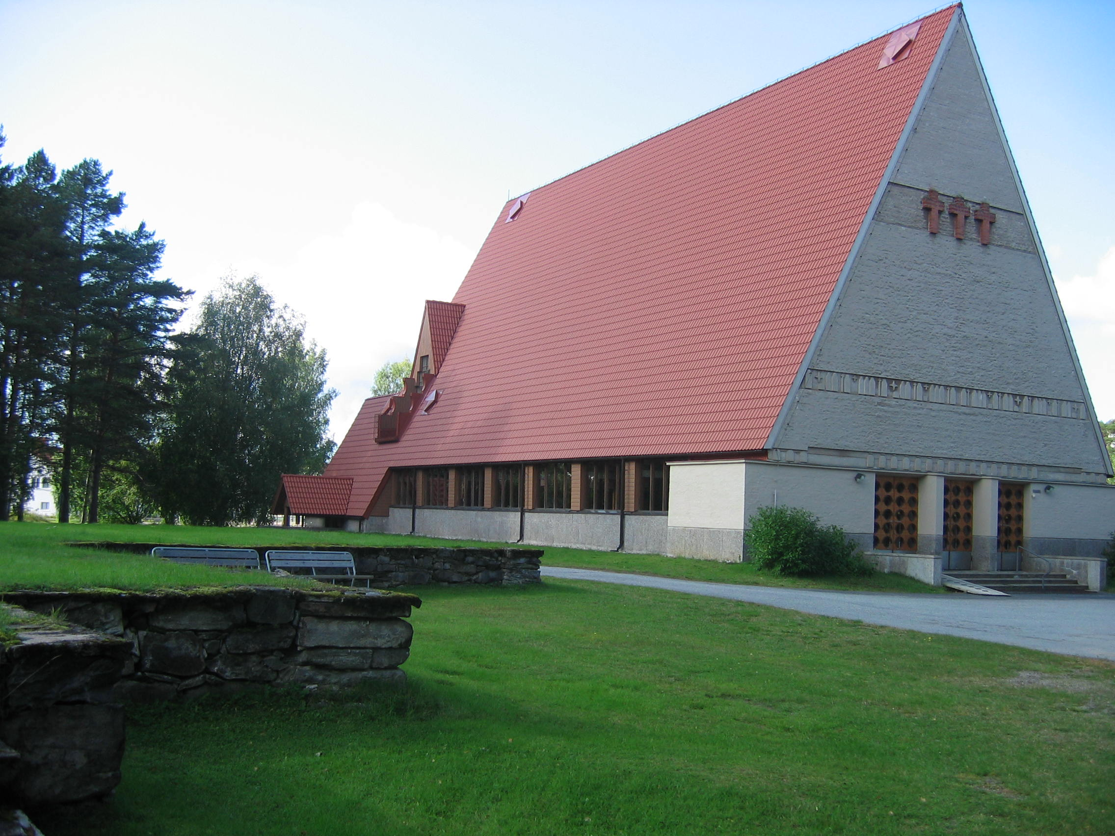 The Lutheran church of the municipality of Puolanka, Finland.